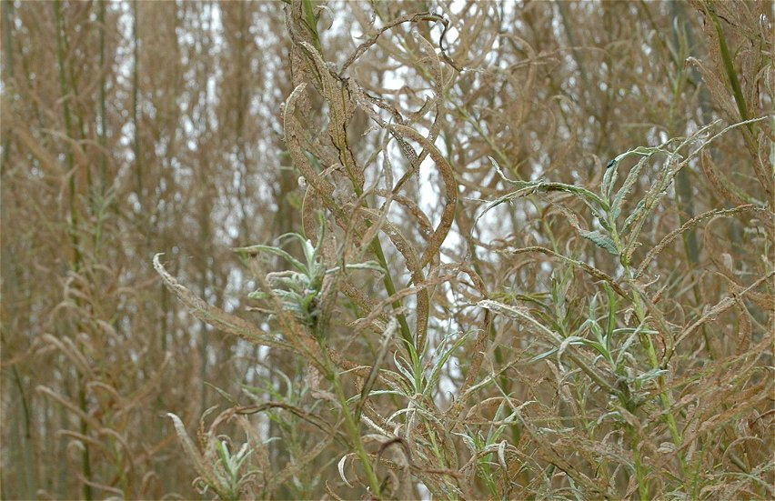 damage by Phratora vulgatissima in a willow-plantation